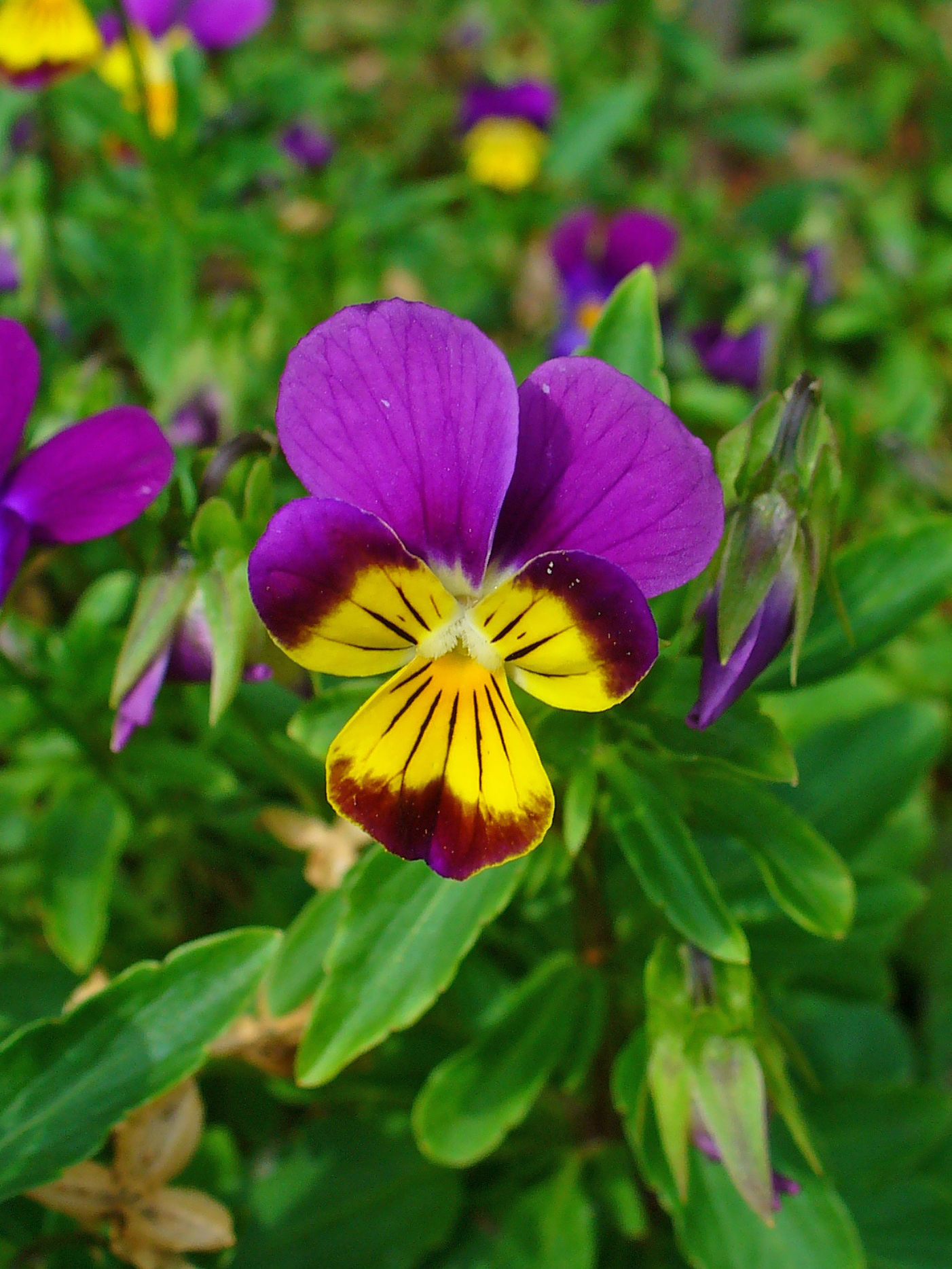 Viola tricolor, Violaceae, Heartsease, Wild Pansy, flowers.